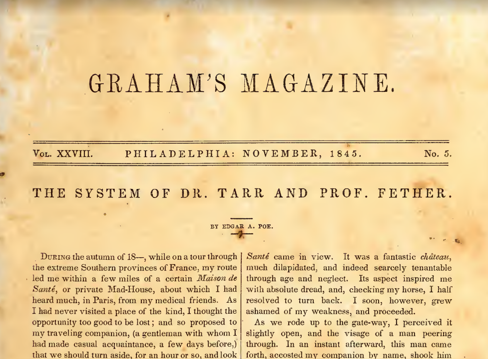 first page of the Poe story in Graham's Magazine, "The System of Dr. Tarr and Prof. Fether (November 1845)